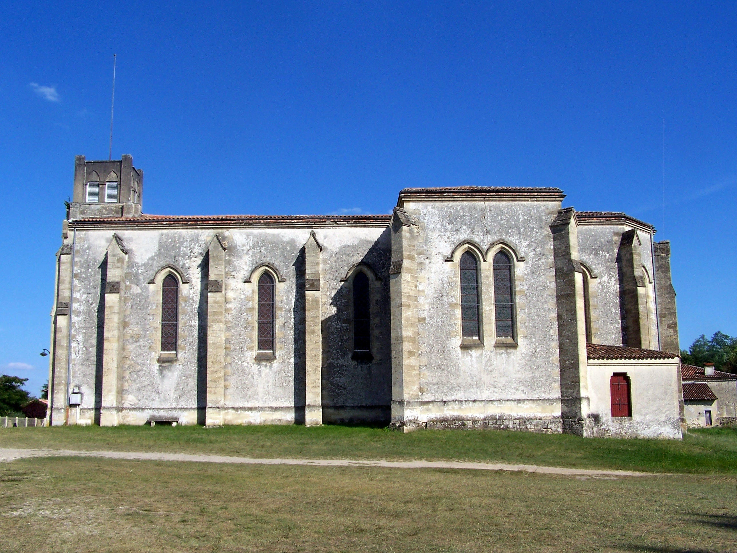 Church of Balizac (Gironde, France)